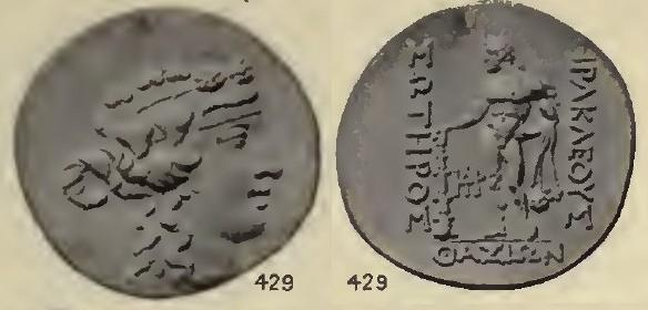 Greek coins and their parent cities (1902) Author: Ward, John, 1832-1912; Hill, George Francis, Sir, 1867-1948 Subject: Coins, Greek; Numismatics, Greek; Greece -- Description, geography; Italy -- Description and travel; Turkey -- Description and travel Publisher: London : Murray Possible copyright status: NOT_IN_COPYRIGHT Language: English Call number: AKB-0671 Digitizing sponsor: MSN Book contributor: Robarts - University of Toronto Collection: toronto Scanfactors: 7